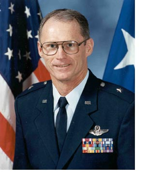 official portrait of then-Brigadier General (now Major General) Michael H. Tice: Reserve Component assistant to HQ USCINCPAC (2001); former commander, United States Air Force 154th Wing of the Hawaii Air National Guard (1989–2000)